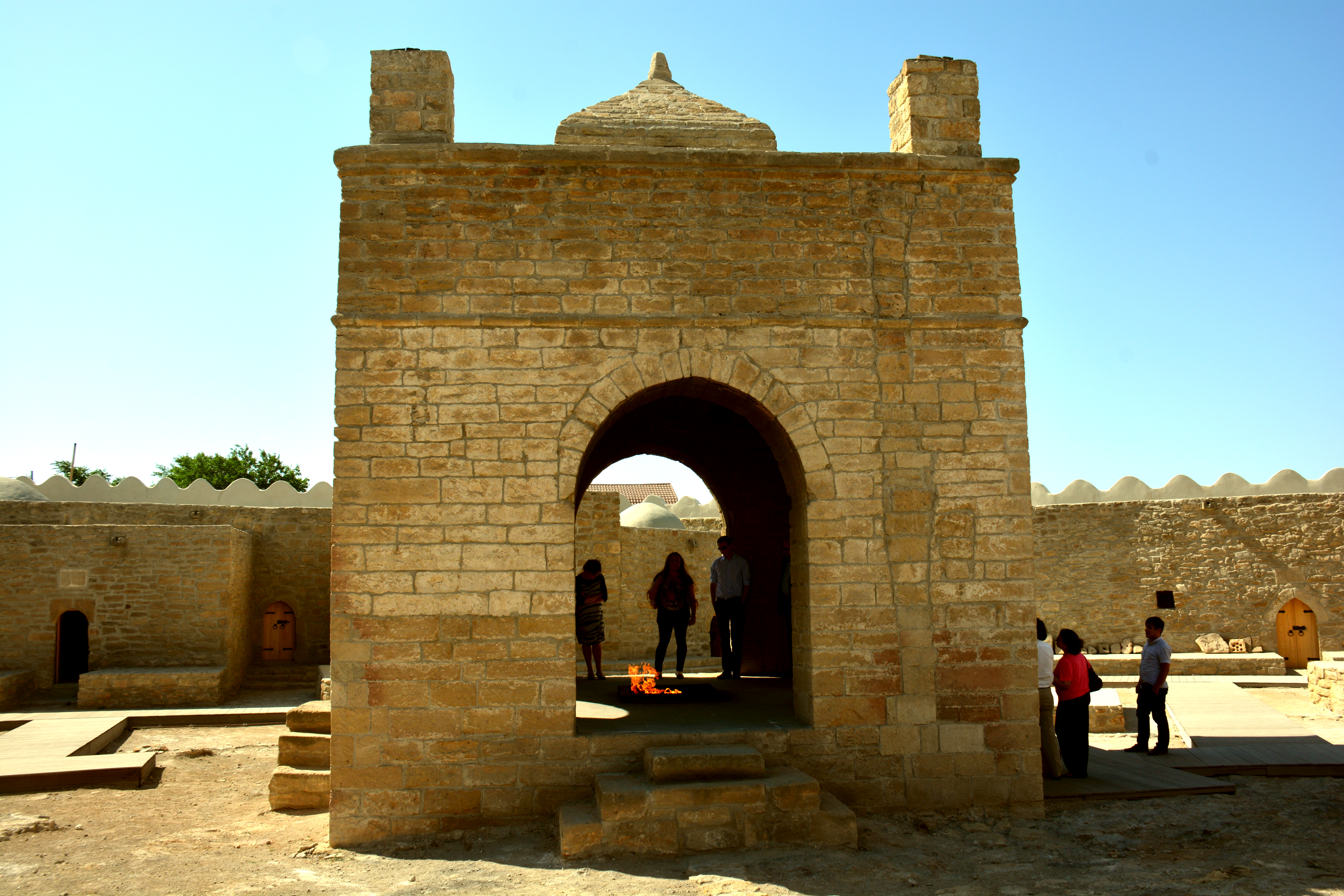 Ateshgah (Fire temple) in Surakhany, Baku, Azerbaijan.